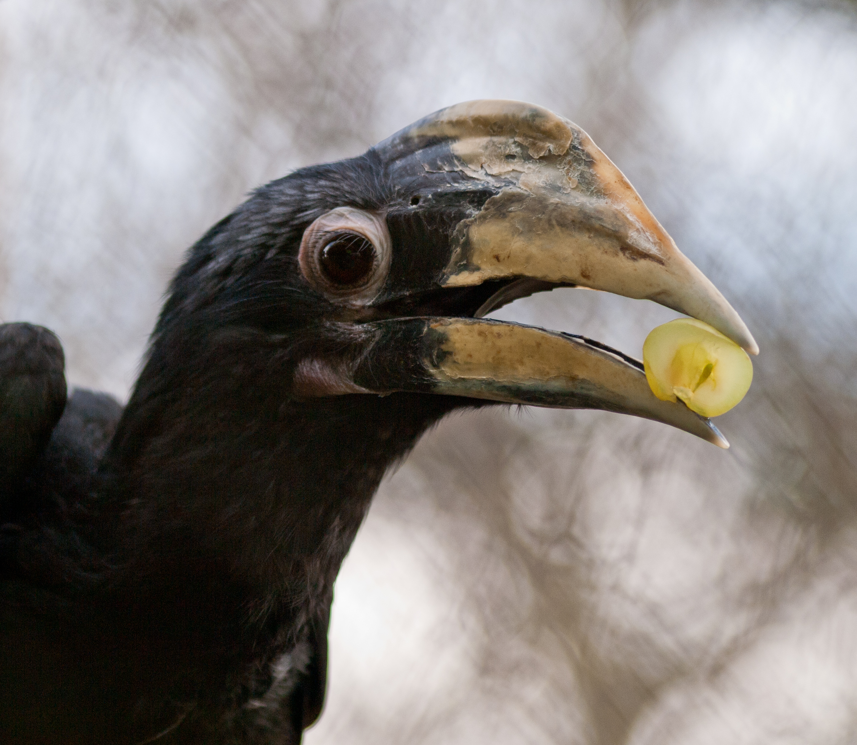 A juvenile Black Hornbill eating fruit at London Zoo, England.